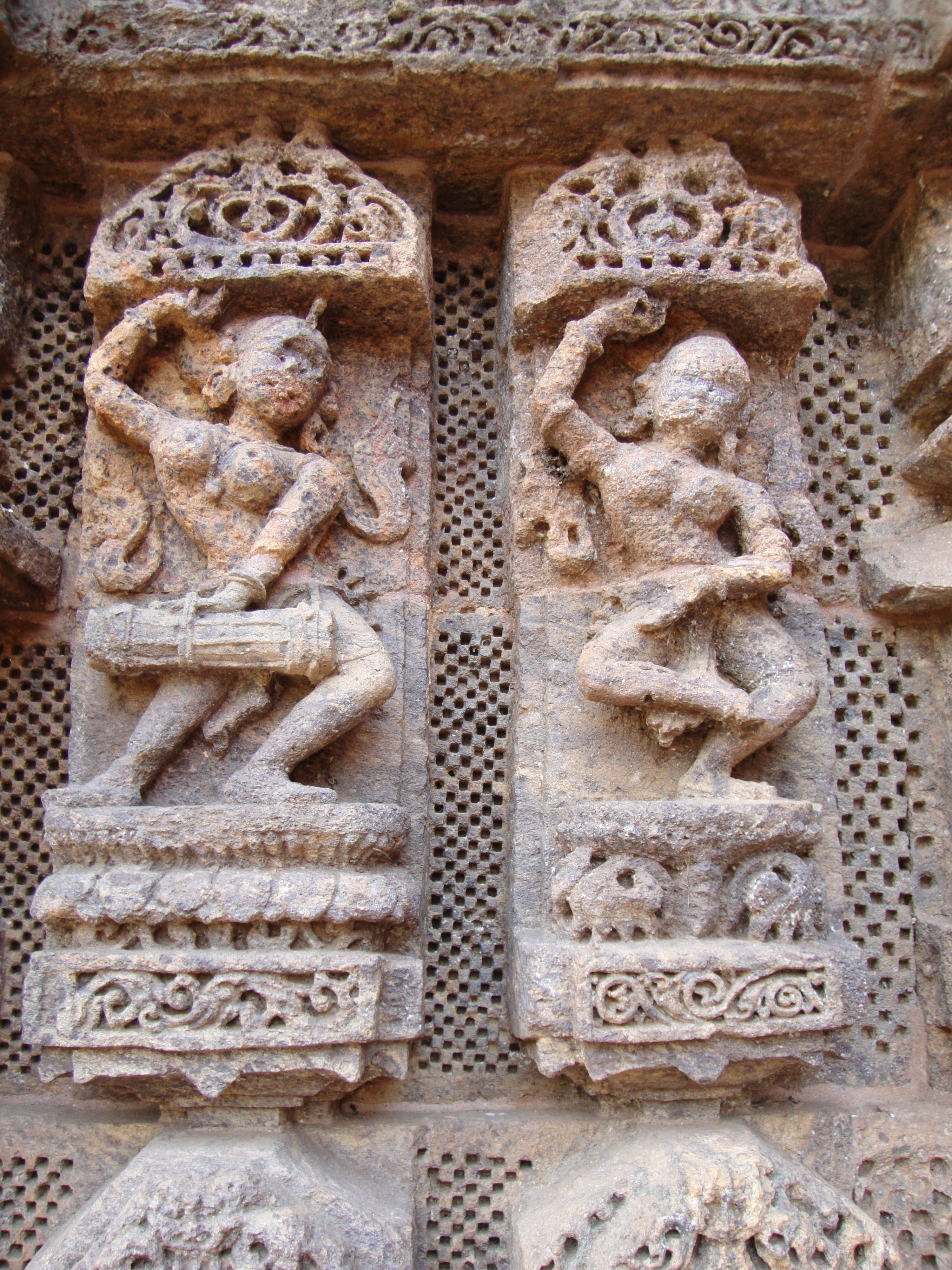 two dancing figures